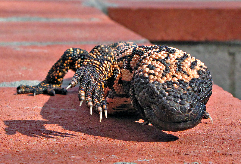 Gile Monster at Arizona-Sonora Desert Museum, Tucson, Arizona, USA.